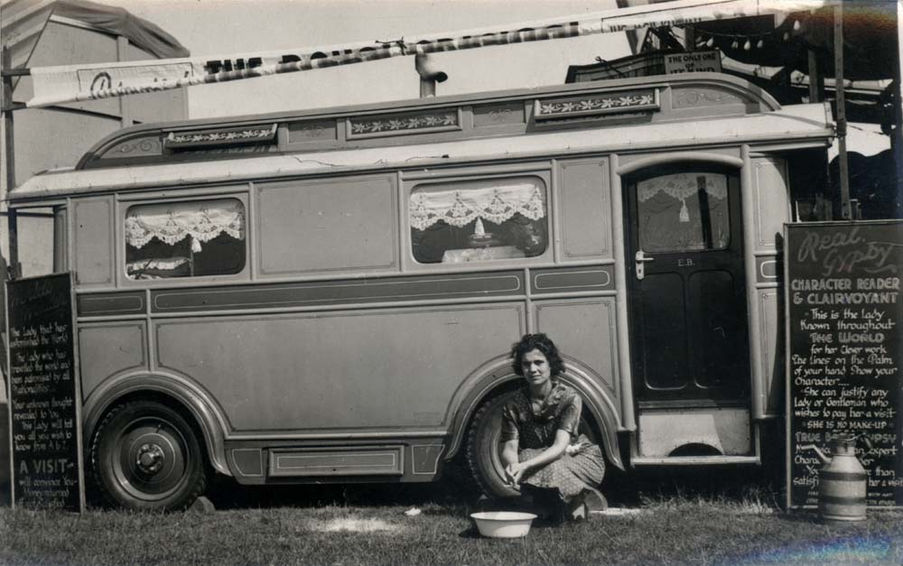 This image shows a lady sat outside her caravan, she's part of a travelling show. The chalk boards beside her van say 'Real Gypsy, character reader and clairvoyant' and 'World's Wonder' Accession: 944/2955 The images have been selected from the Arthur J Fenwick collection of circus material. Arthur James Fenwick (1878-1957) was a director of Fenwick's Department Store. In his personal life he was extremely interested in fairs and circuses, collecting historical material about them and building personal relationships with showmen who visited Newcastle. He was made a life member of the Showmen's Guild in 1944. (Copyright) We're happy for you to share this digital image within the spirit of The Commons. Please cite 'Tyne & Wear Archives & Museums' when reusing. Certain restrictions on high quality reproductions and commercial use of the original physical version apply though; if you're unsure please . To purchase a hi-res copy please quoting the title and reference number.